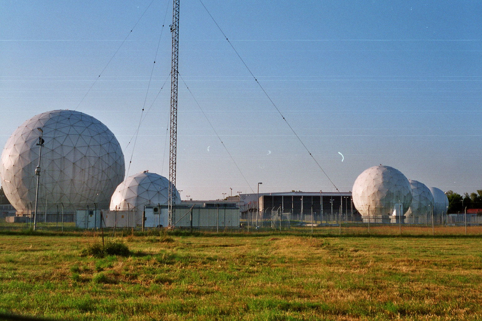 Bad Aibling Station